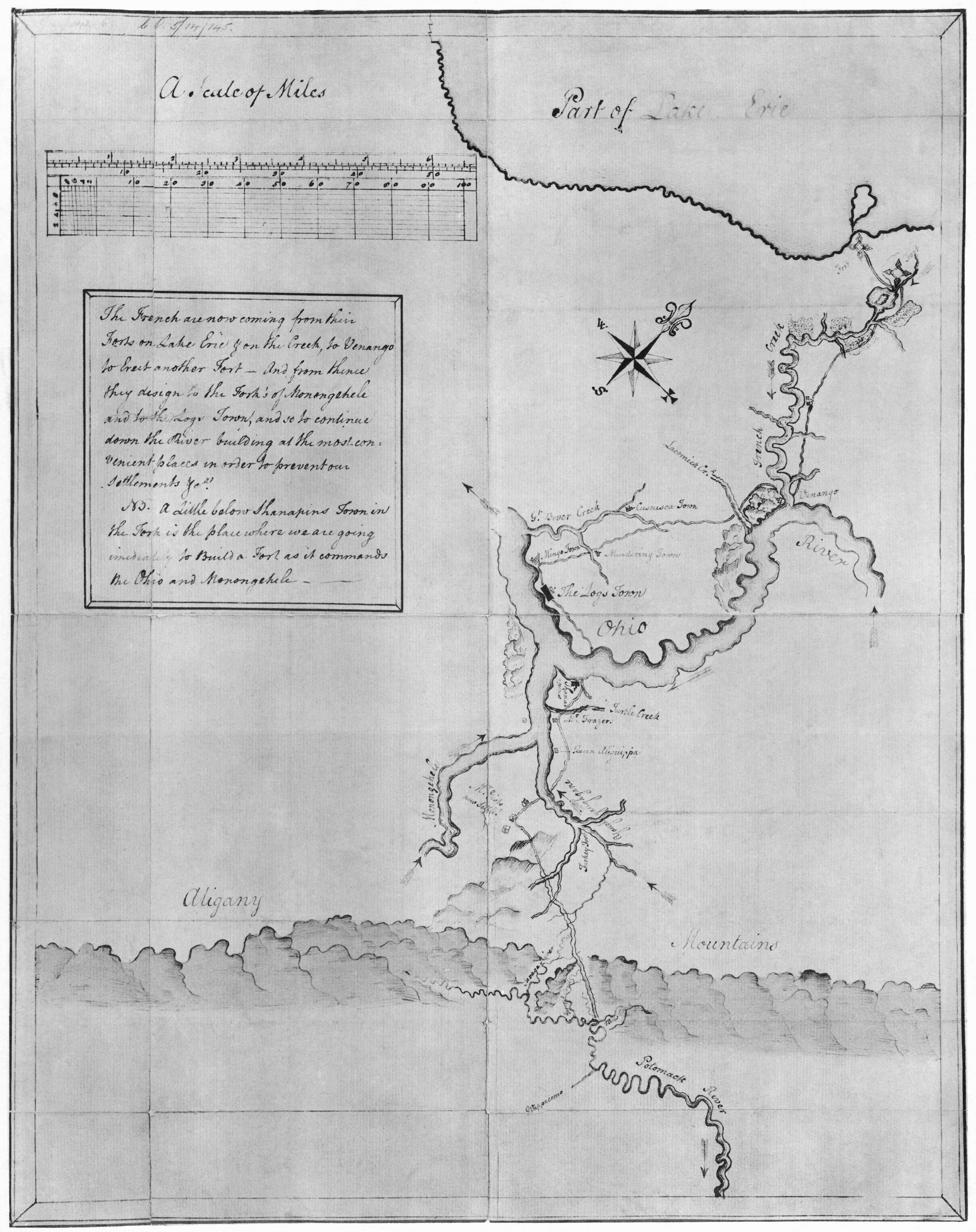 Hand-drawn map by George Washington, accompanying a printing of the journal he kept of his 1753 expedition into the Ohio Country.